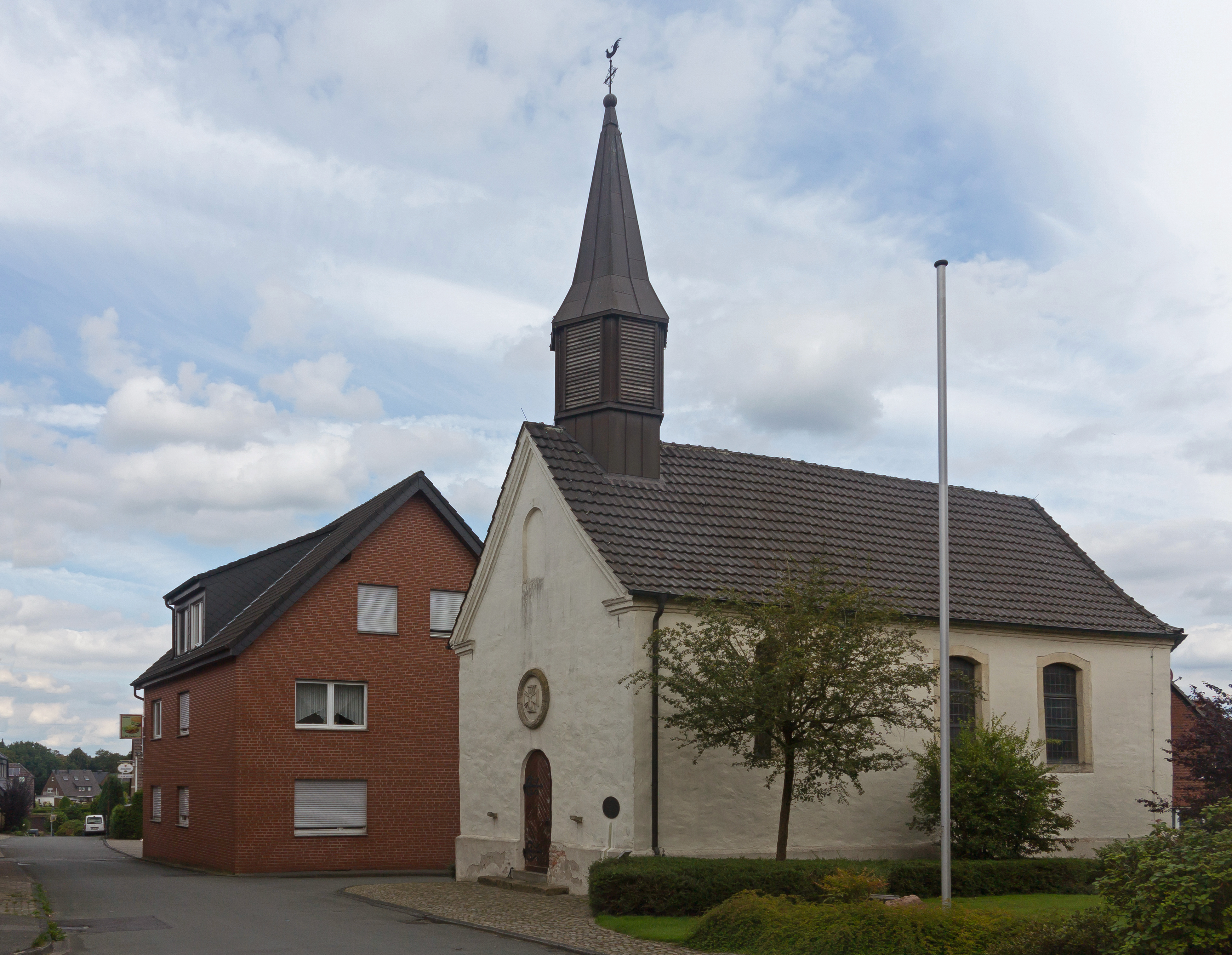 Lavesum, chapelThis is a photograph of an architectural monument., no. 4